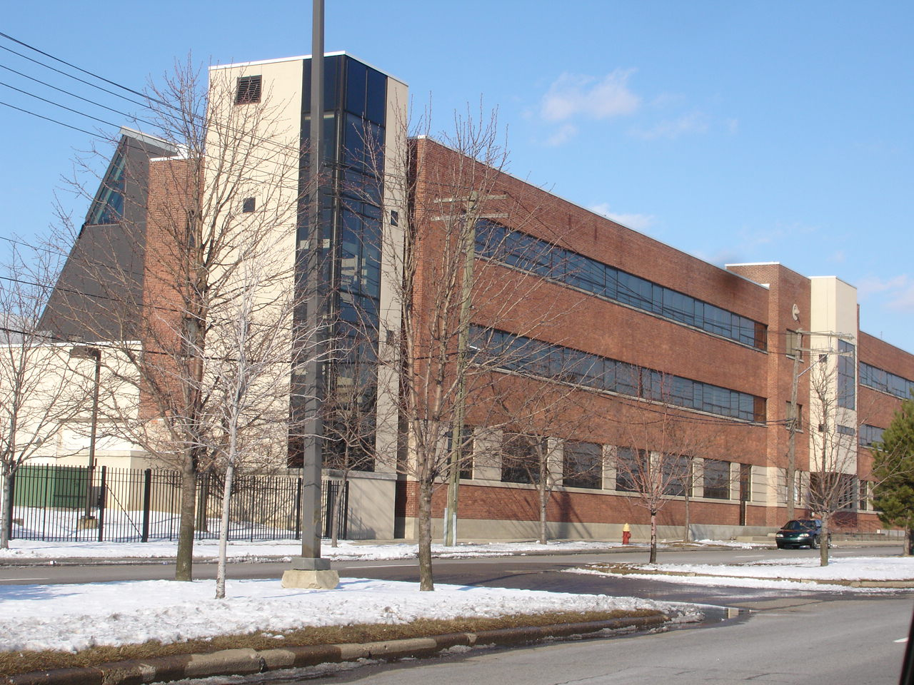 Self taken photo of Focus: HOPE Center for Advanced Technologies. Photo taken on 3/01/2008